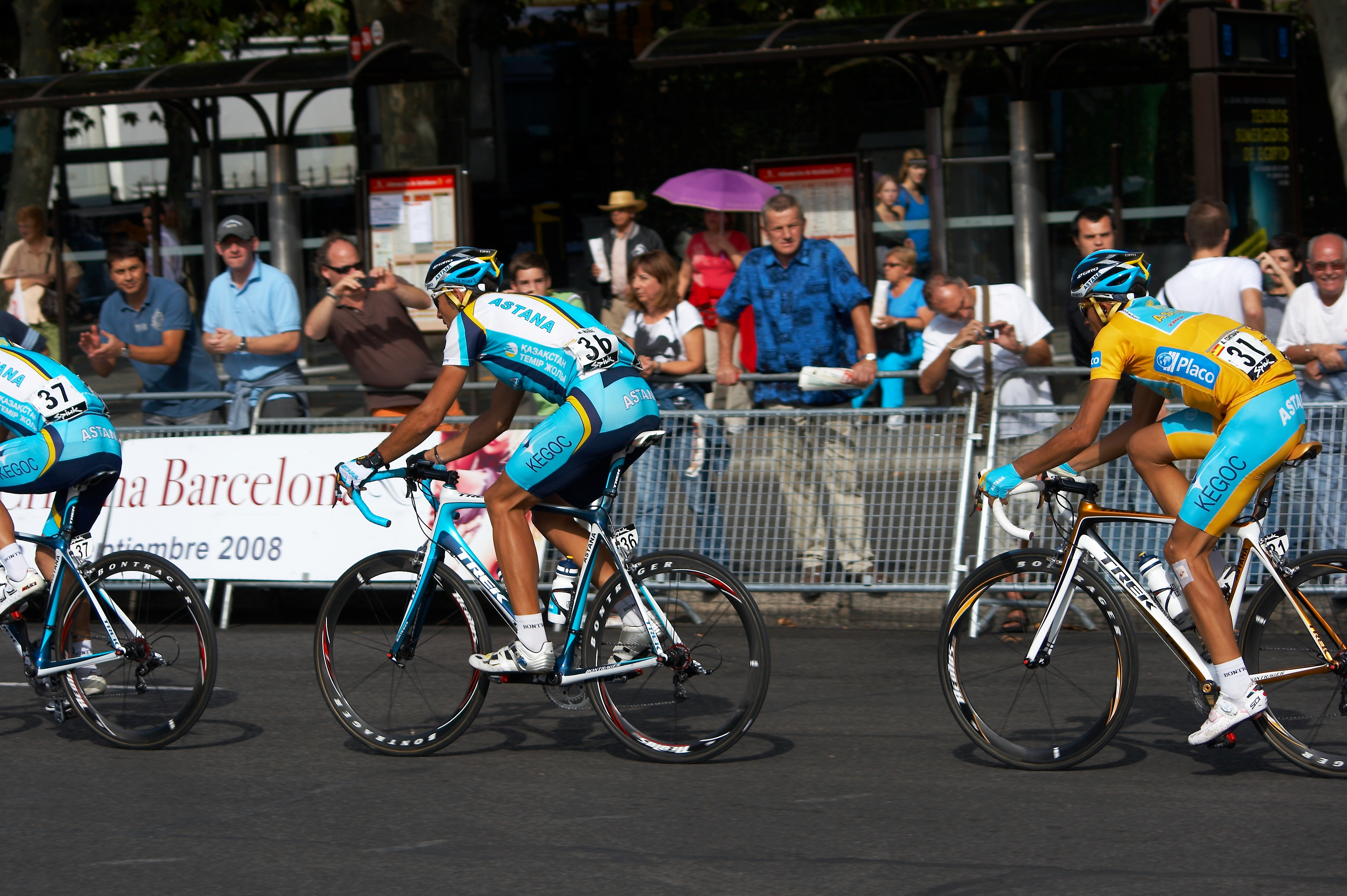 NOVAL GONZALEZ Benjamin (36/ESP) and CONTADOR Alberto (31/ESP), 2008 Vuelta a España, Madrid, Spain.